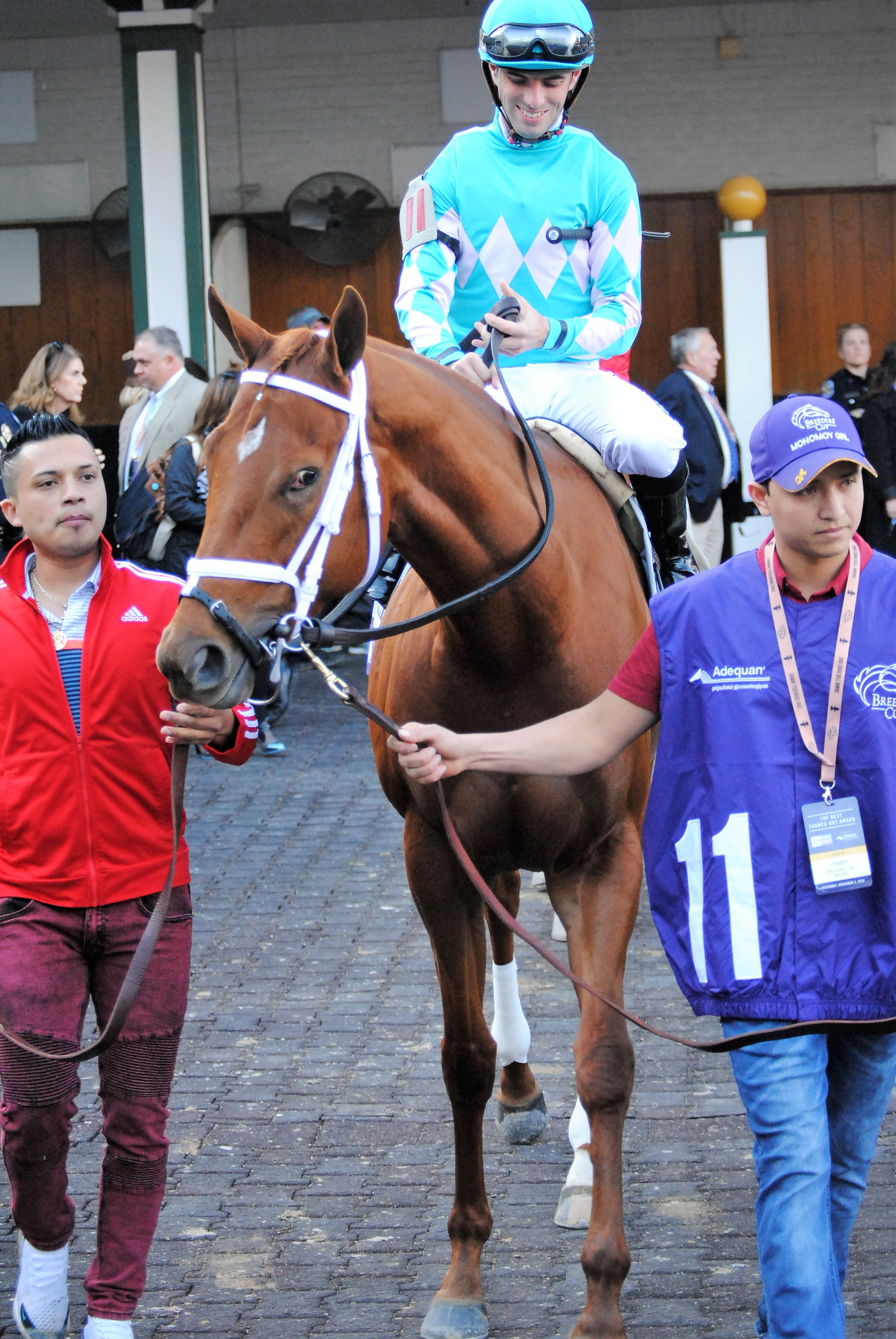 Monomoy Girl and Florent Geroux prior to winning the 2018 Breeders' Cup Distaff